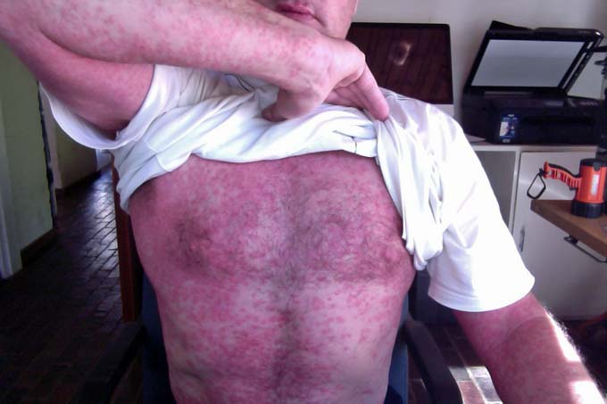 Swimmers itch, Schistosomatidae Infection. Picture 10 hours after swimming in infested waters